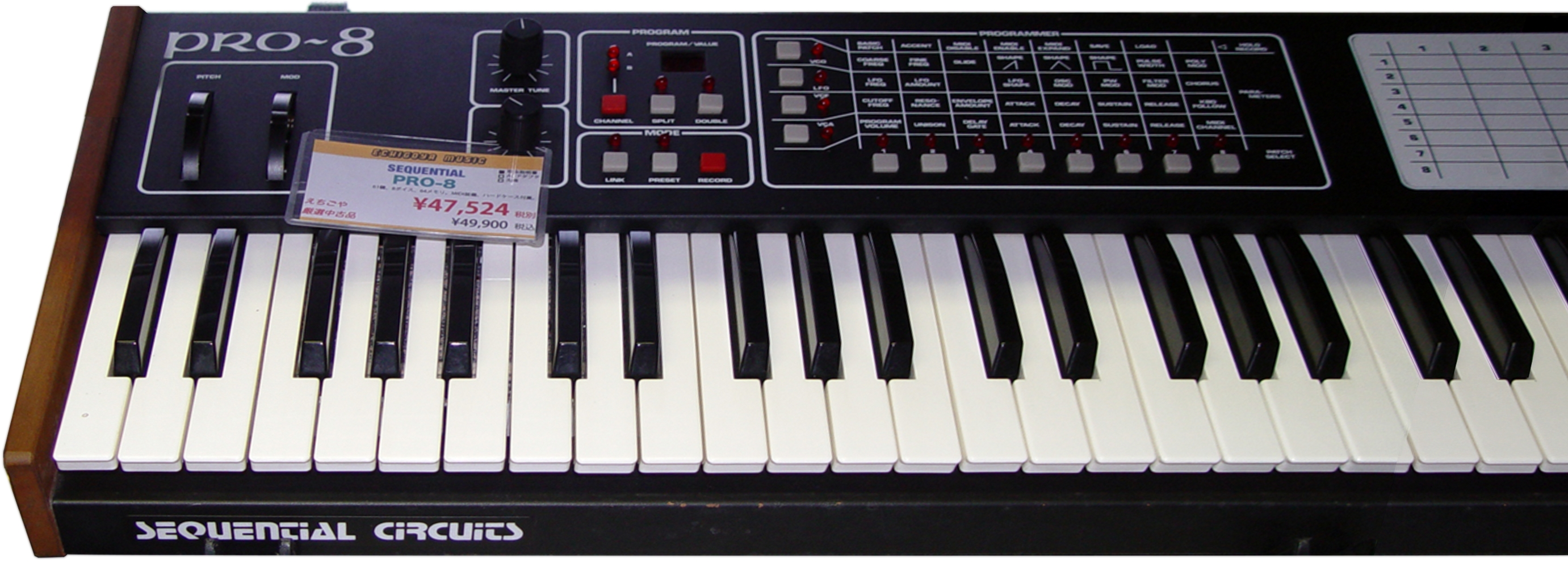 Sequential Circuits Pro-8 (Sprit-8 in the USA) seen at Echigoya music in Shibuya.